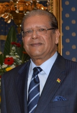 Foreign Minister Julie Bishop meets with Mauritian President H.E. Rajkeswur Purryag. 15 September 2014